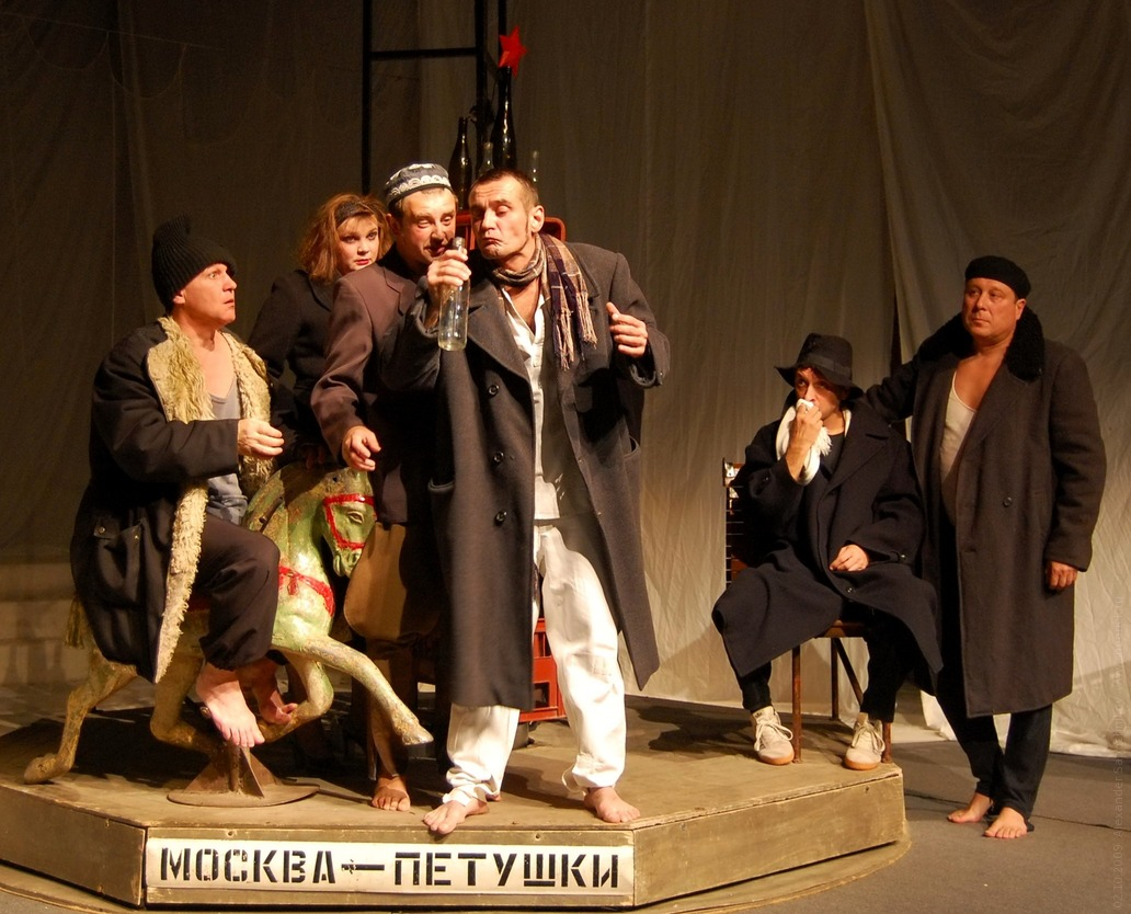 “Begi, Venichka, begi!” (russian “Run, Venichka, run!”) played by actors of Maneken Theatre (Chelyabinsk, Russia)